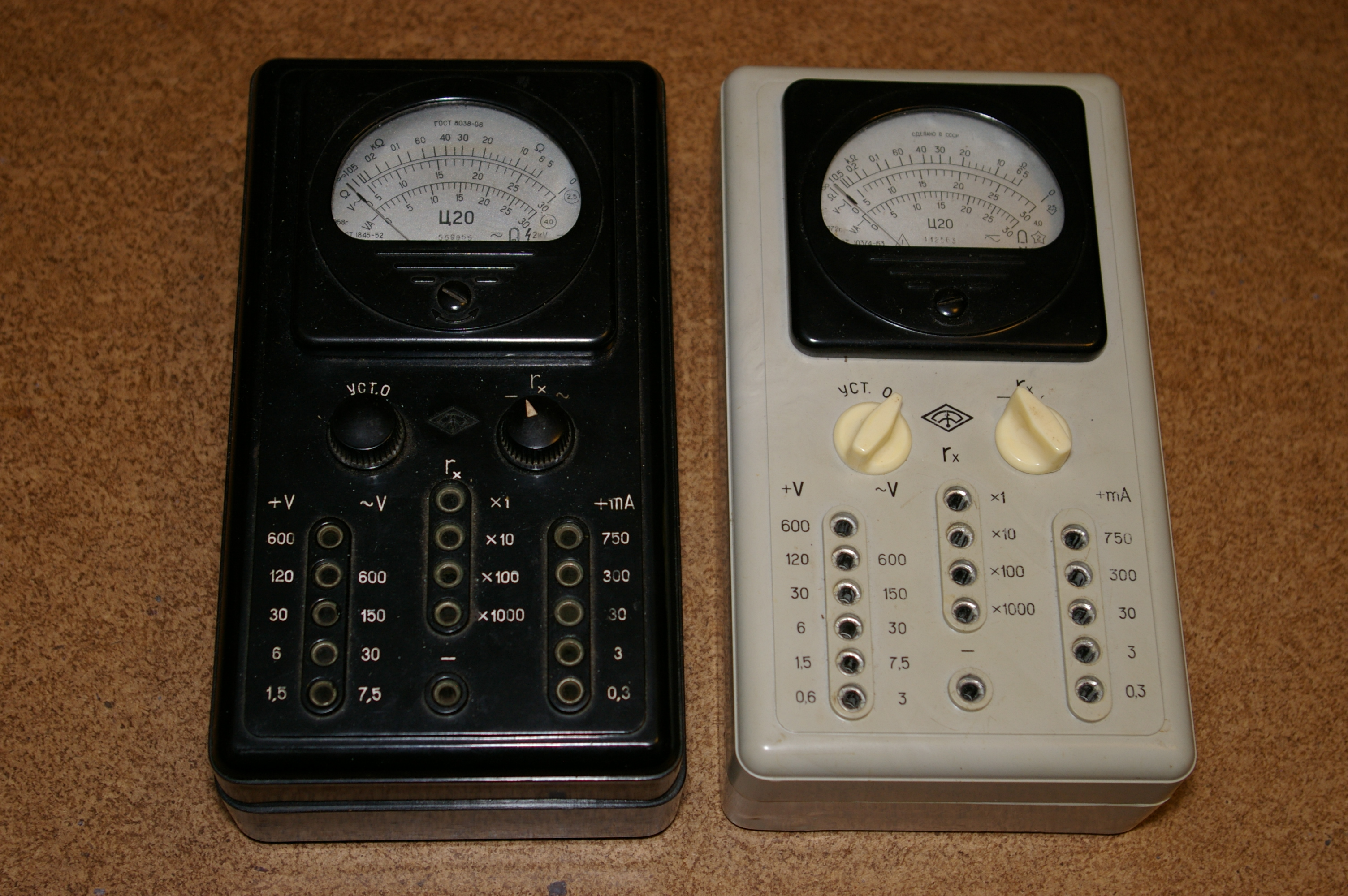 Ц20 (C20) multimeters. USSR, since 1958